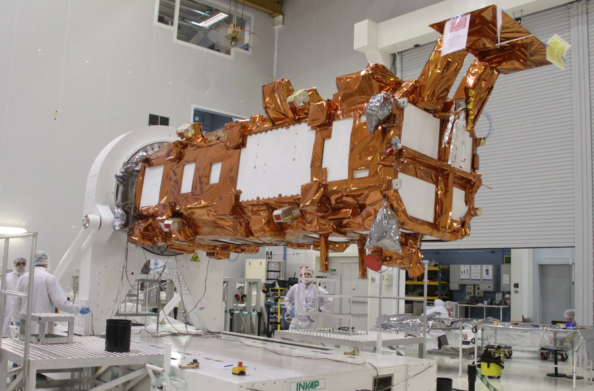 SAOCOM 1A at INVAP. October 2017